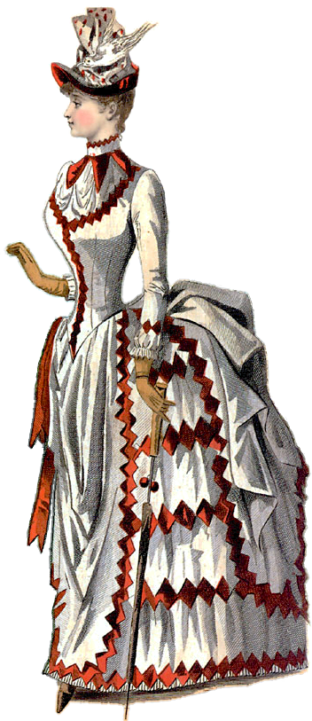 Lady wearing a bustled dress. From mid-1880's fashion plate, depicting non-eveningwear.